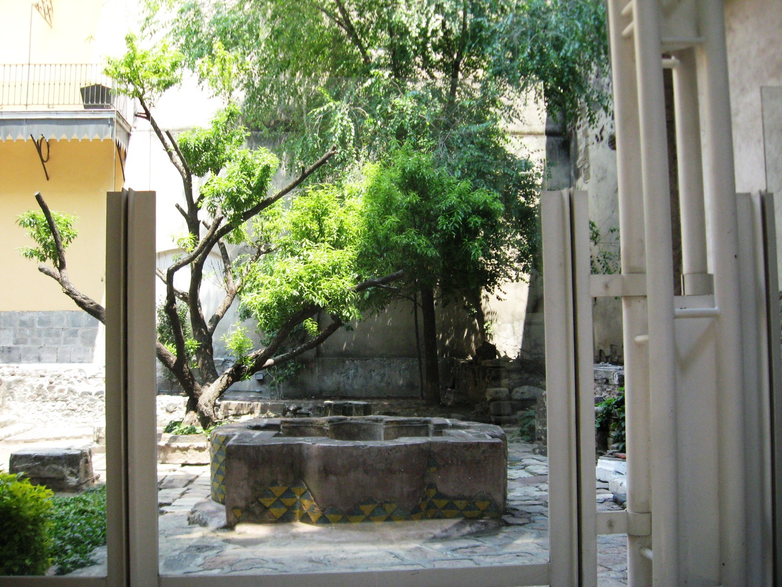 Old well in the patio area of the ex convent of Santa Teresa in the historic center of Mexico City